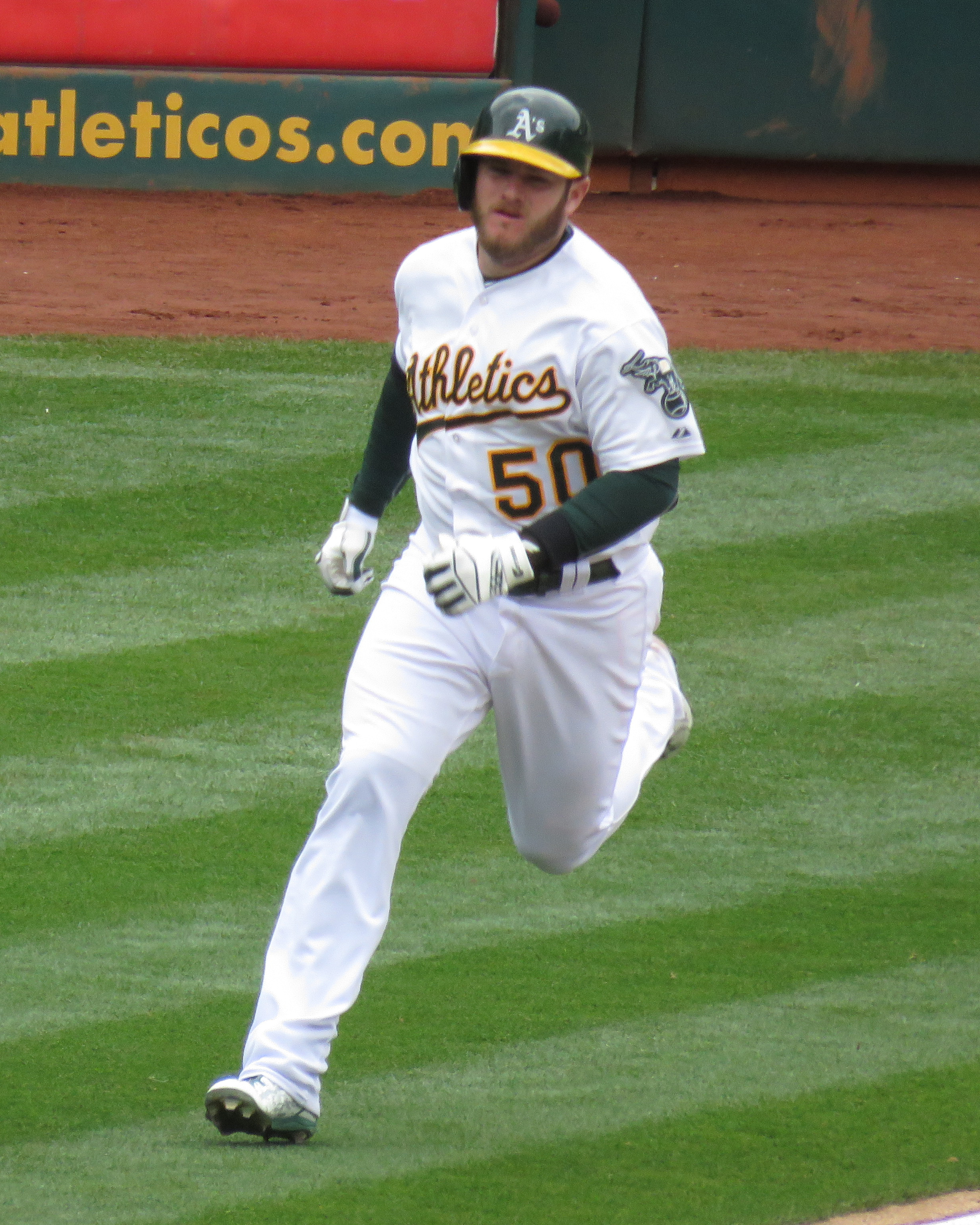 Muncy running out a base hit in 2015